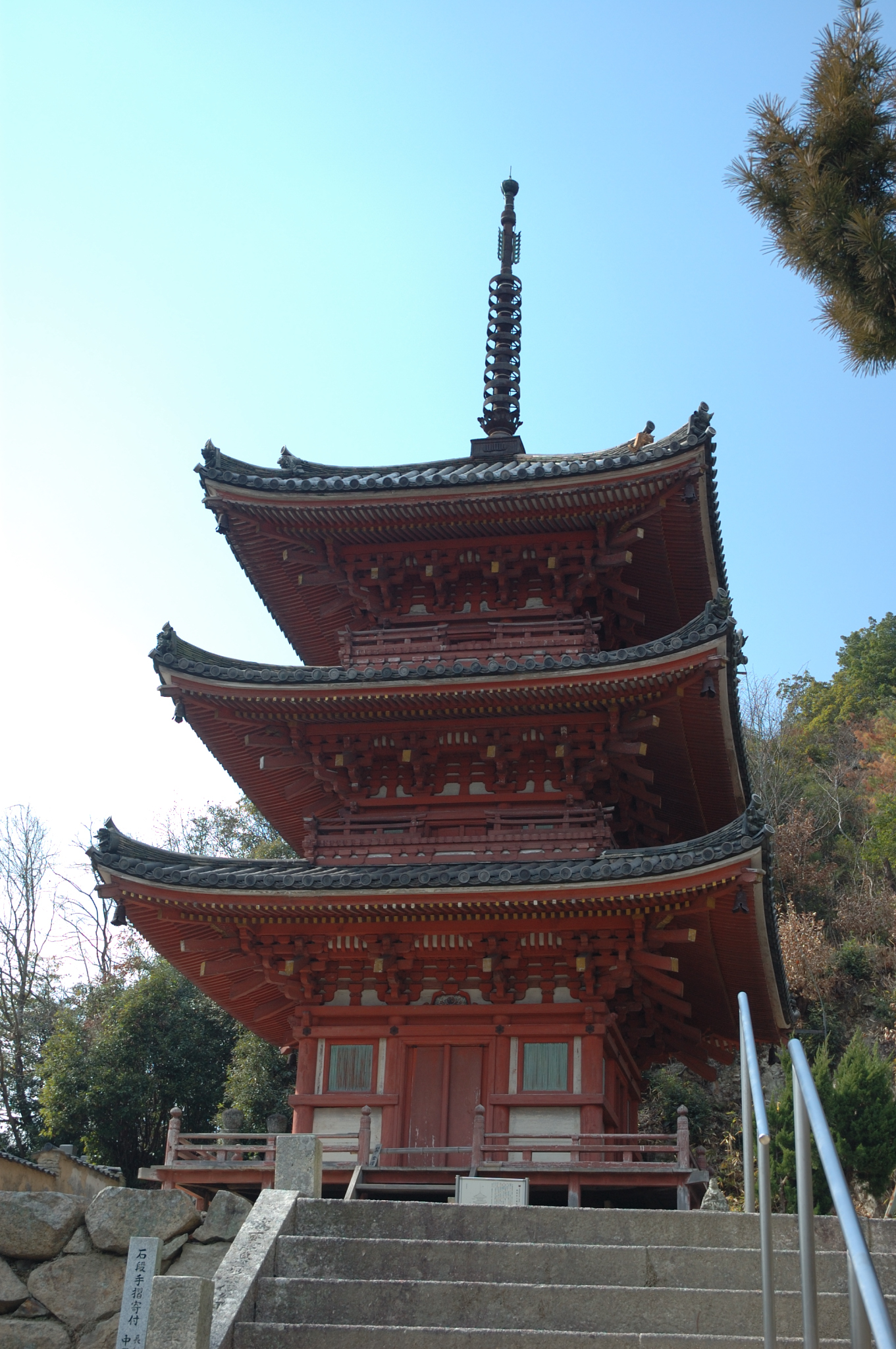 Three-storied pagoda(Japan's national important cultural property), Shinkō-ji, Bizen city, Japan